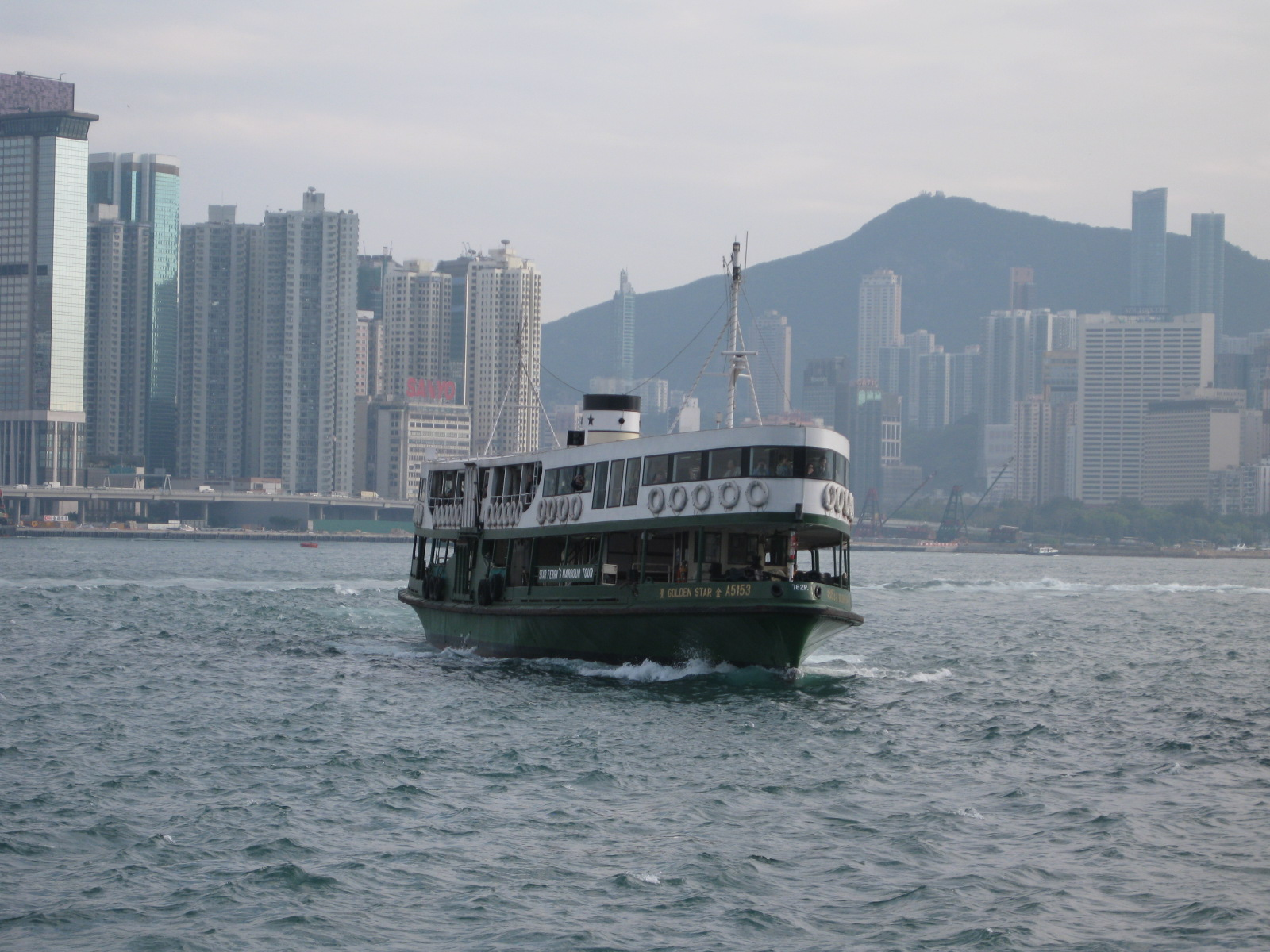 Hung Hom to Central Ferry last day